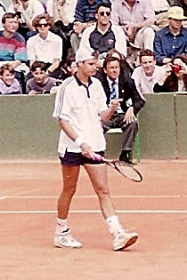 German tennisman Marc Goellner, during his match against Greg Rusedski in the 1st round of the 1994 French Open.